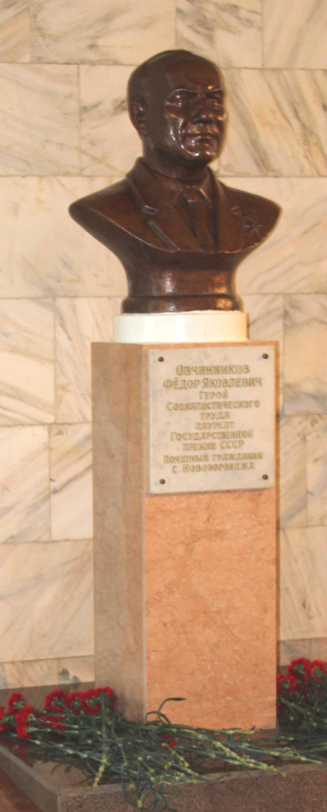 Ovchinnikov Fedor Yakovlevich Memorial ; Bust